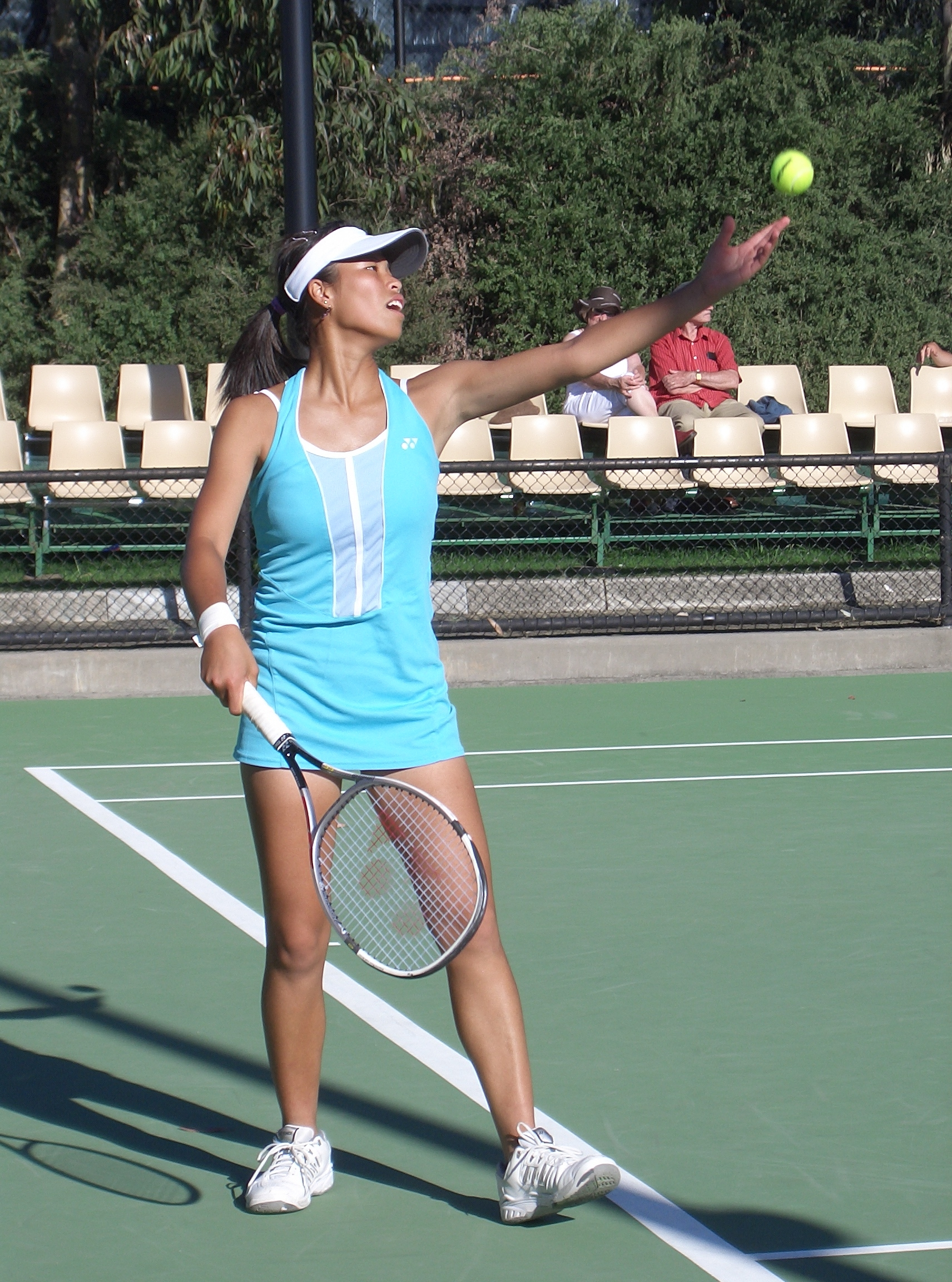 Suwei Hsieh (or Su-wei Hsieh)（traditional characters: 謝淑薇 pinyin:xie4 shu1wei2) serves the ball during the 2006 Australian Open.